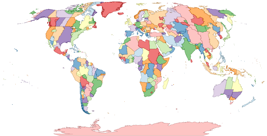 World map showing zones as in tz database, version 2009r